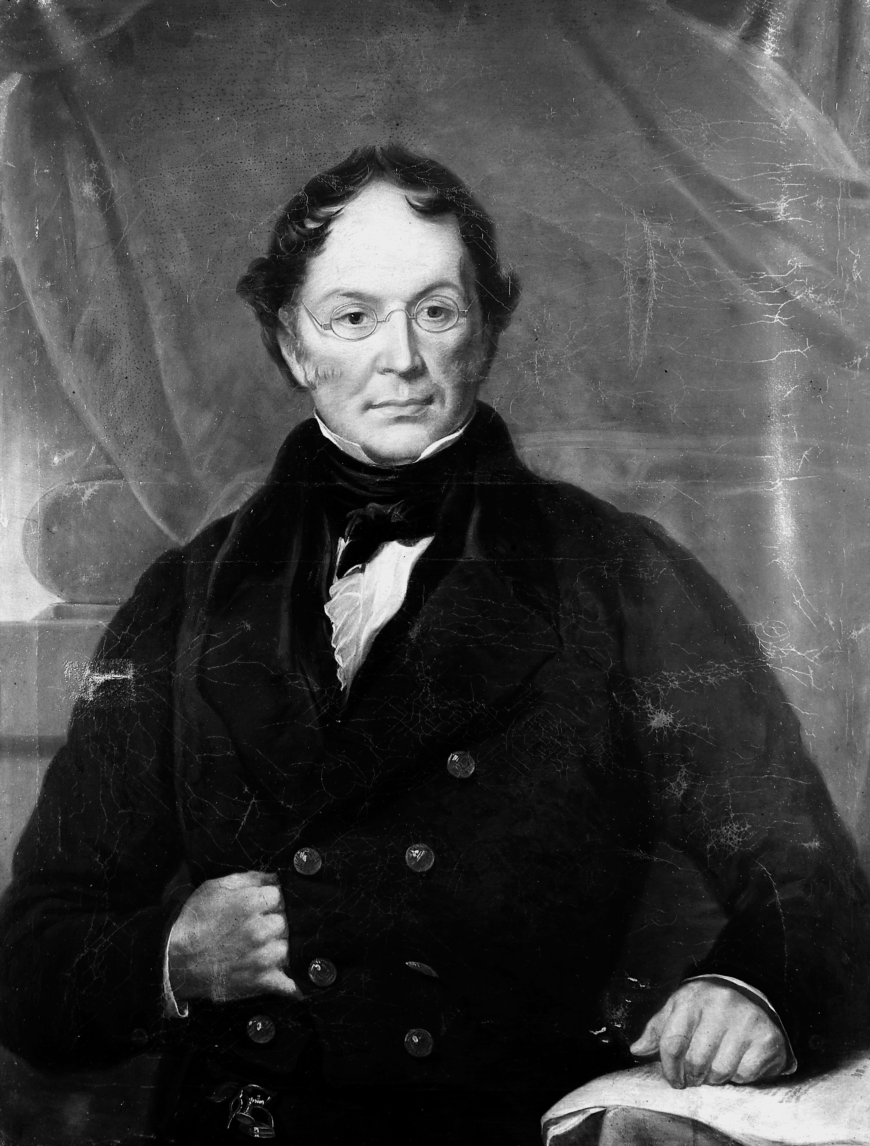 Portrait of G. Burrows by Middleton or after his portrait (with differences) in the Worshipful Society of Apothecaries of London. Wellcome Images Keywords: George Man Burrows; J.G. Middleton